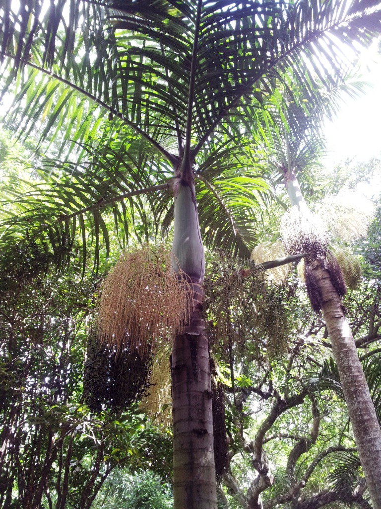 Hyophorbe verschaffeltii - endemic Rodrigues palm